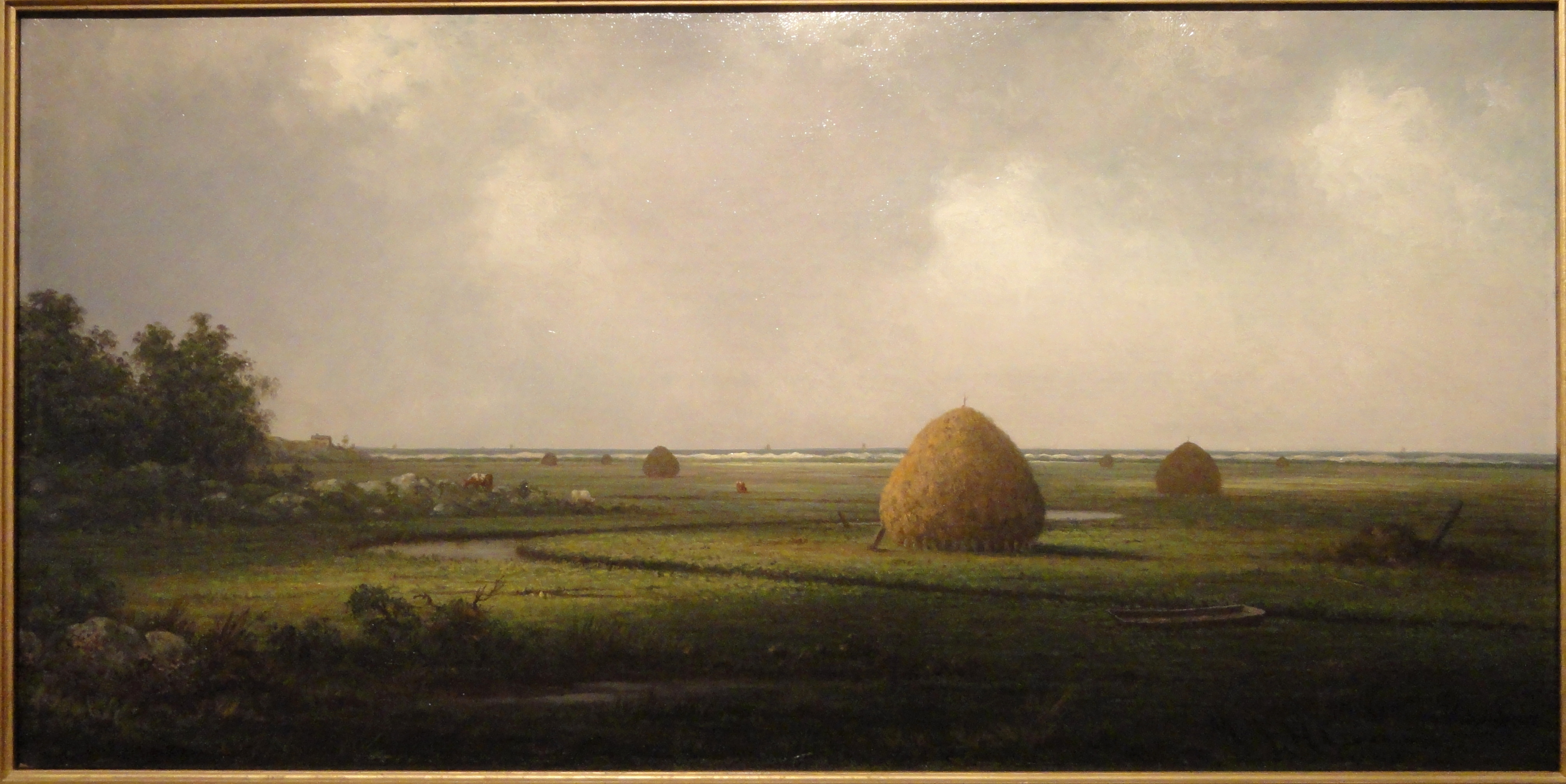 Painting exhibited in the Corcoran Gallery of Art, Washington, D.C., USA. There were no prohibitions against photography in the museum. This artwork is in the public domain because the artist died more than 70 years ago.